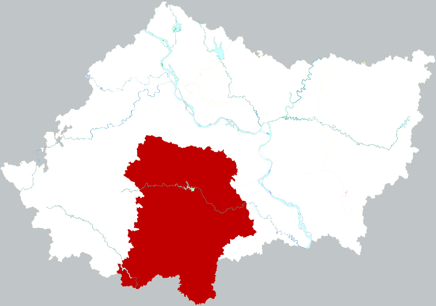 Location of Nanzhang county in Xiangyang city, China